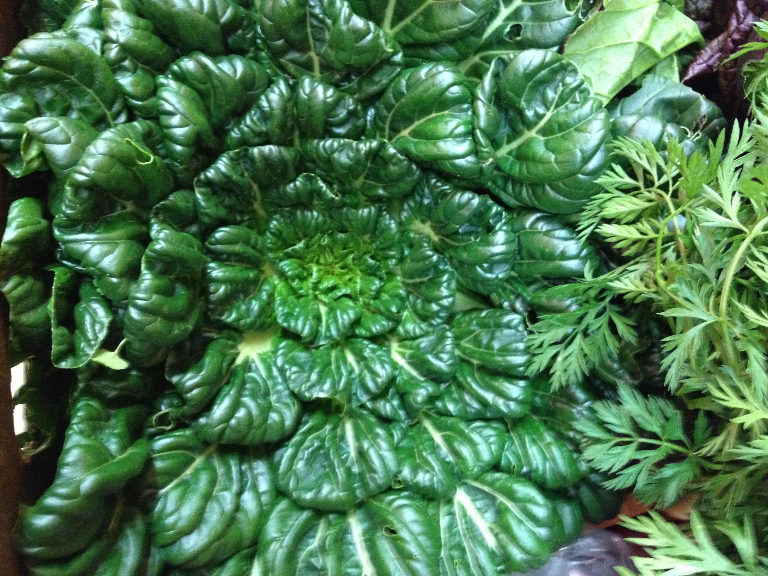 Tatsoi.